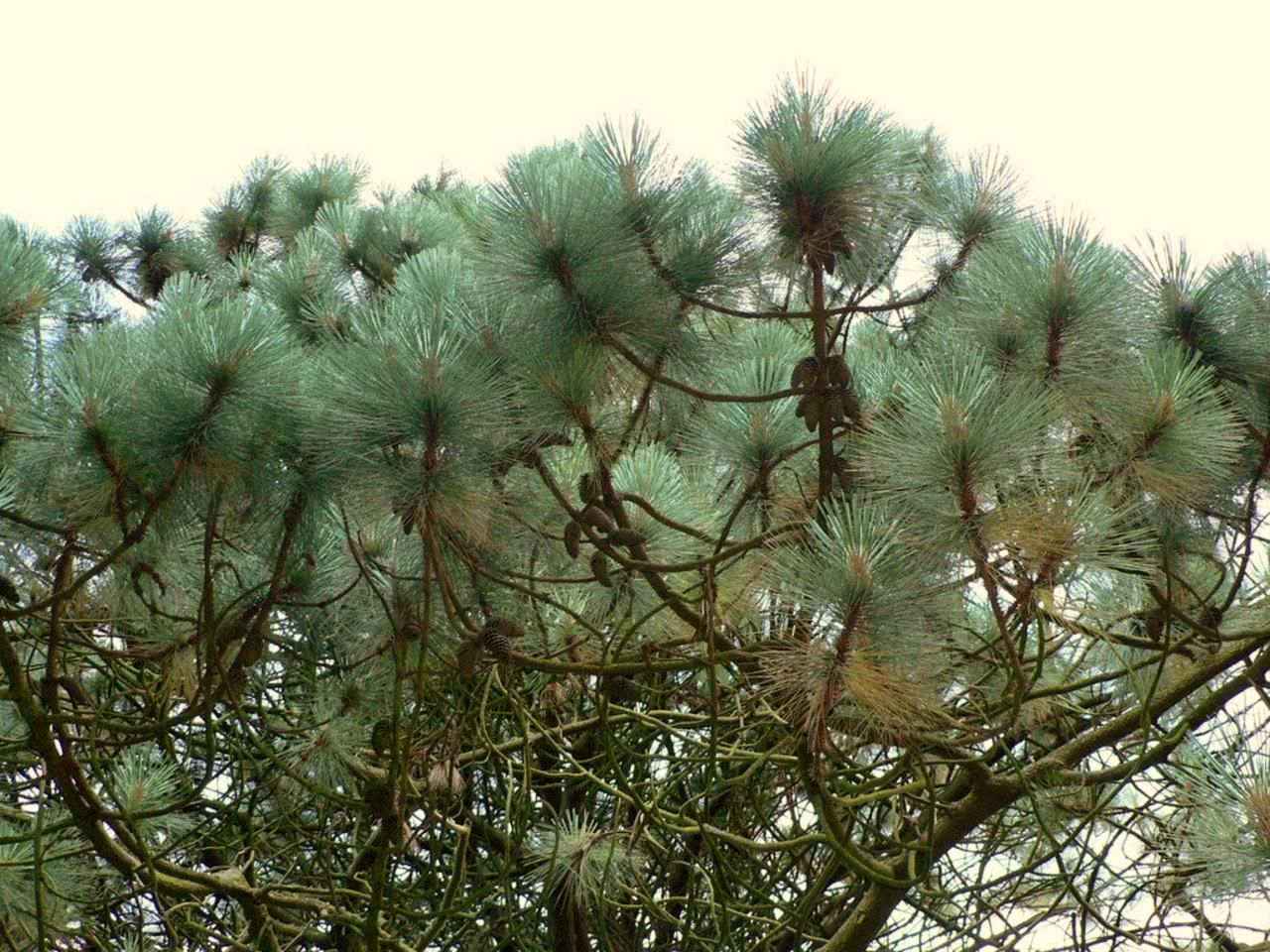 Pinus montezumae, cultivated in Ayrshire, Scotland.